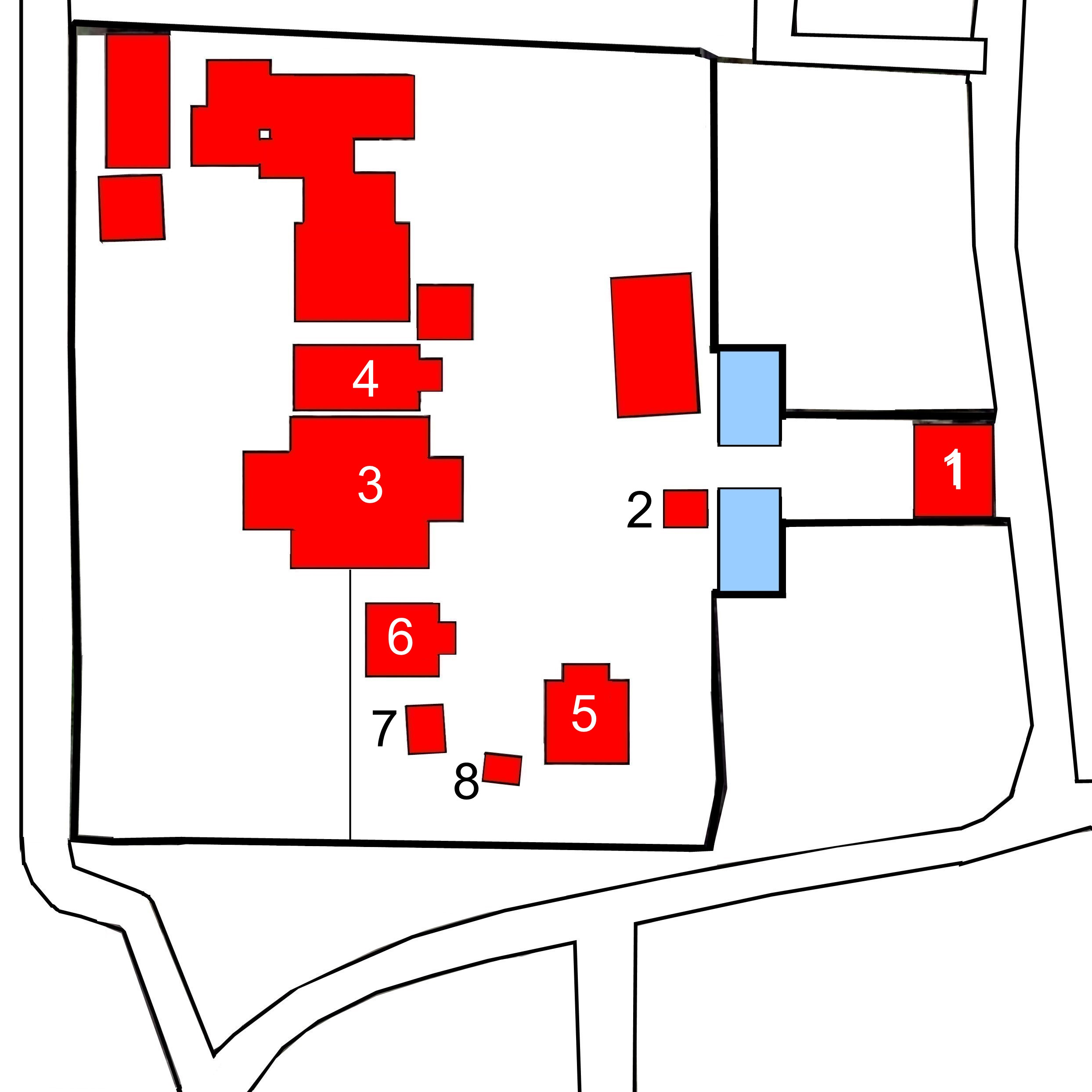 Layout of Mandara Temple at Zentsûji, Japan